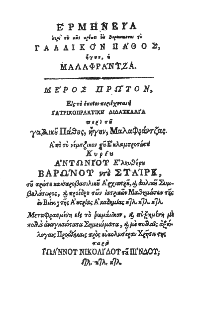 "Erminia", first part, author Ioannis Nikolidis (1745 - 1828).